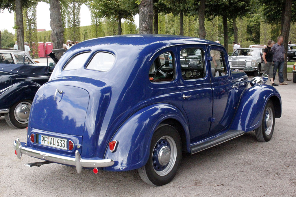 1947 Austin Twelve. The split rear window, the upward sweep of the crease just below the side windows and the size of the car suggests that this is an Austin 12 rather than an Eight. Please &